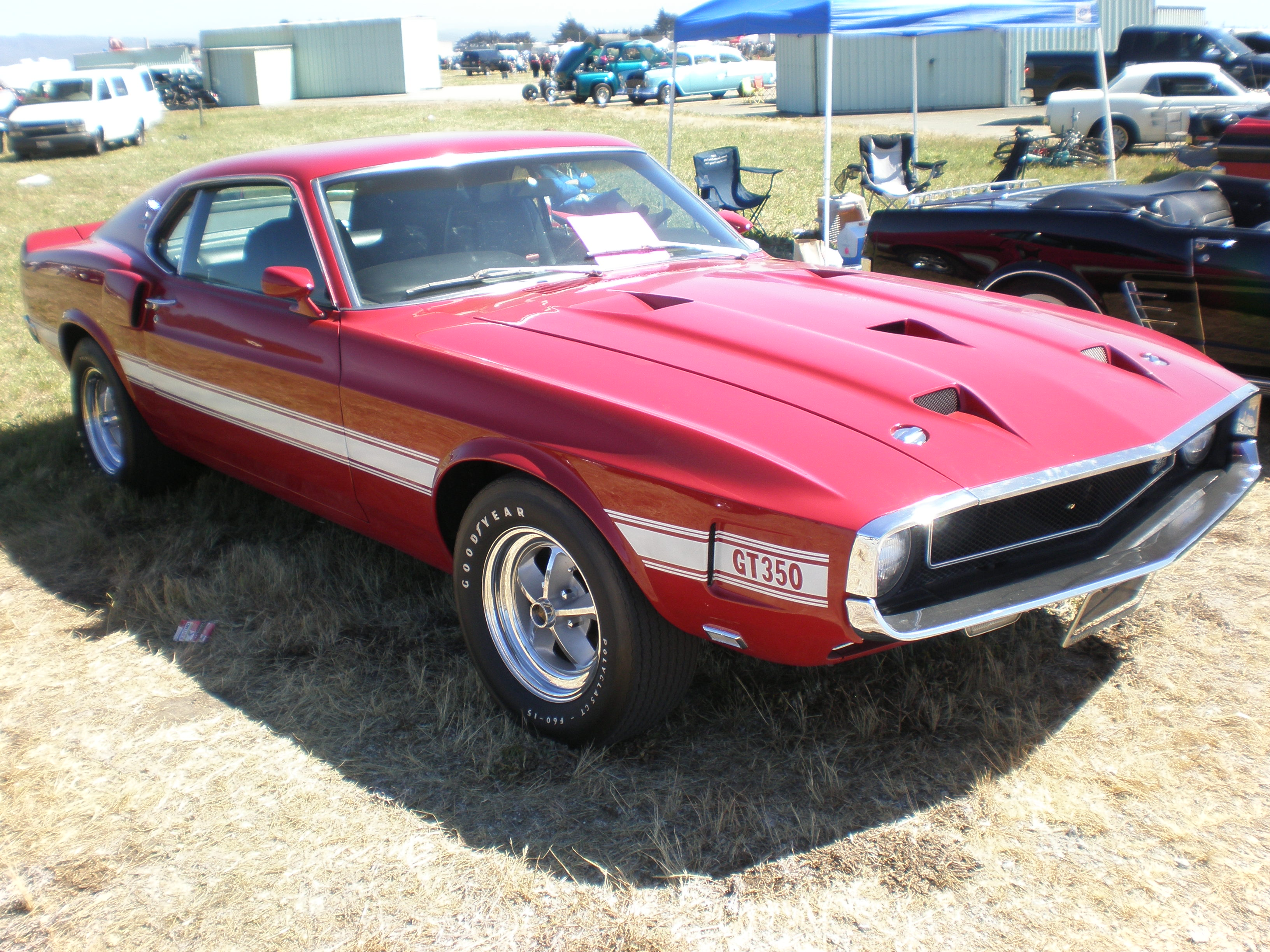 A 1969 Shelby GT 350 at the Pacific Coast Dream Machines vehicle show at the Half Moon Bay Airport in Half Moon Bay, California.